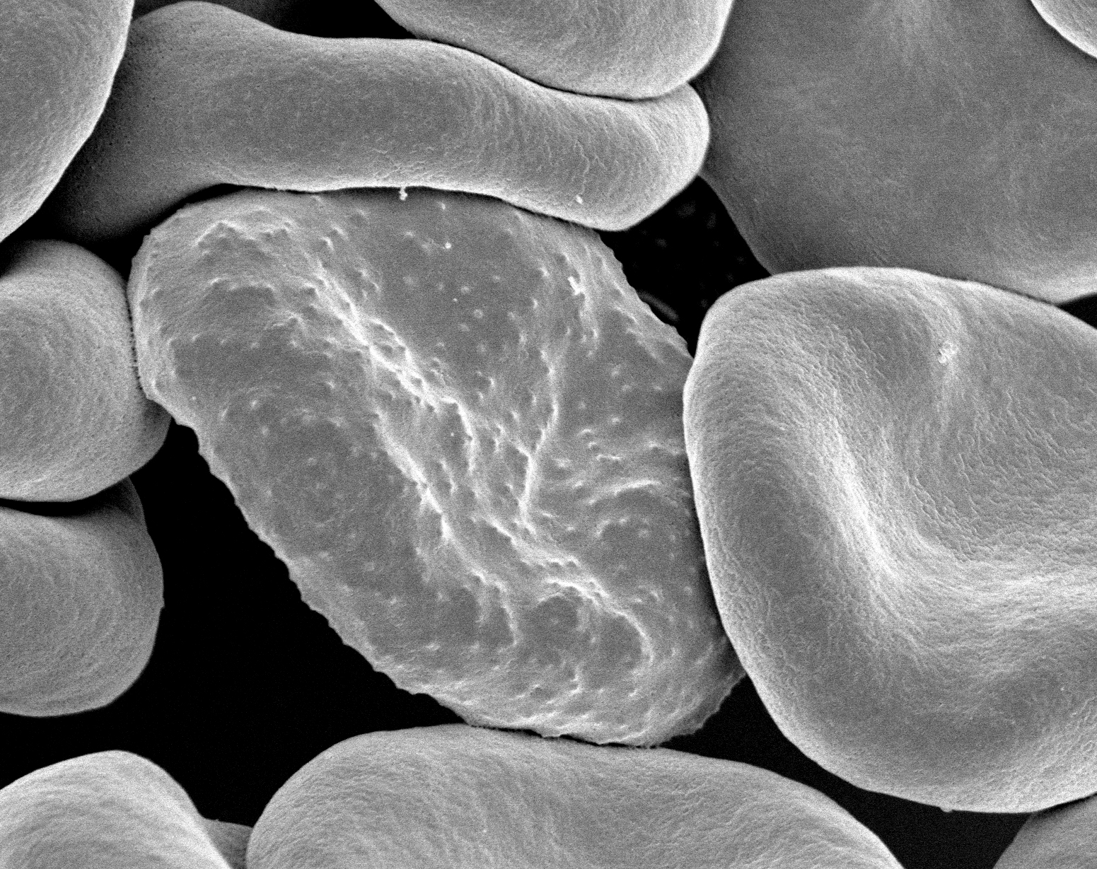 Electron micrograph of red blood cells infected with Plasmodium falciparum, the parasite that causes malaria in humans. During its development, the parasite forms protrusions called 'knobs' on the surface of its host red blood cell which enable it to avoid destruction and cause inflammation. Using scanning electron microscopy, this image shows a knob-rich infected blood cell surrounded by knobless uninfected blood cells.